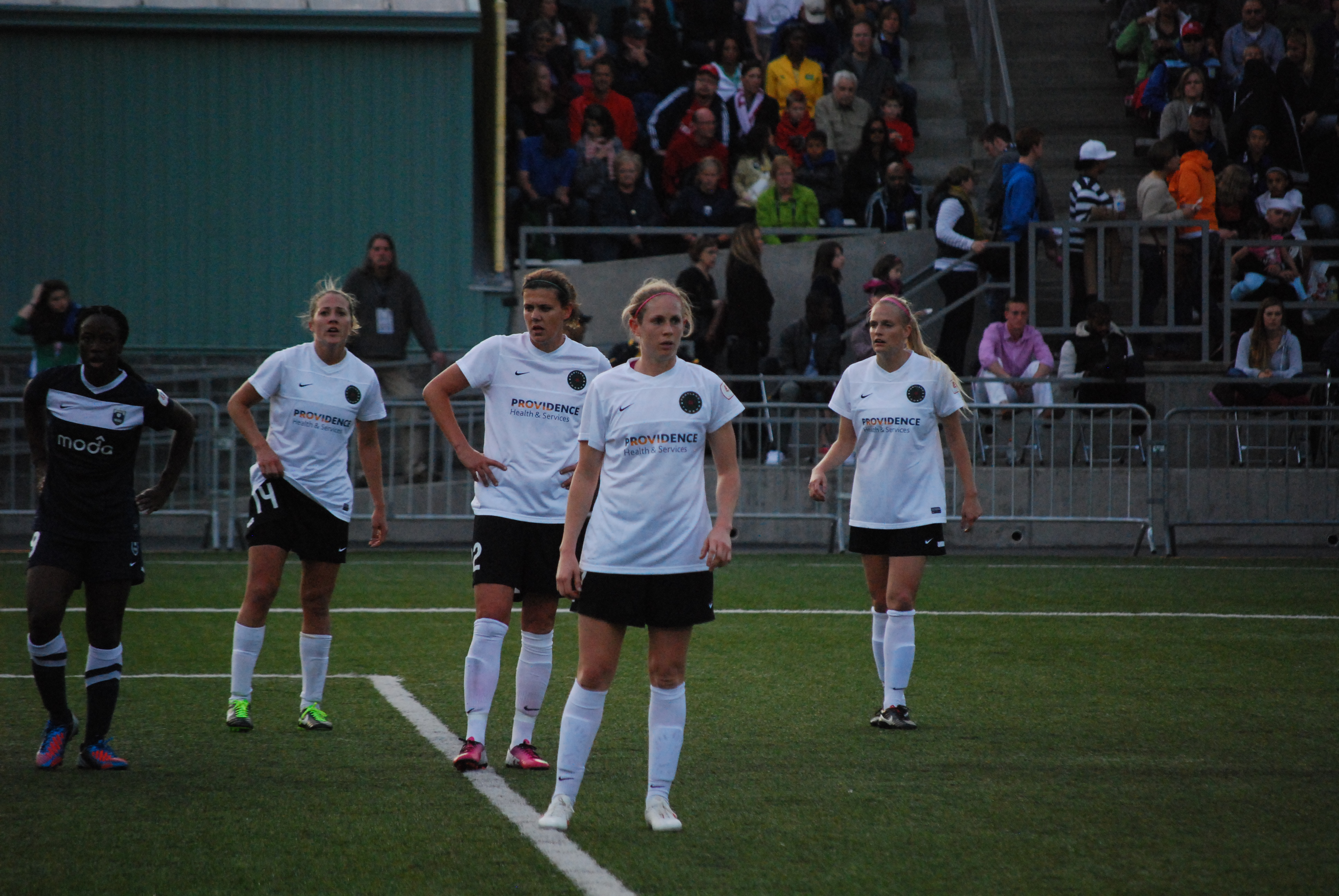 Tiffany Cameron of Seattle Reign FC (left) vs Becky Edwards, Christine Sinclair, Nikki Marshall and Kathryn Williamson of Portland Thorns at Starfire Stadium in Tukwila, Washington on May 25, 2013